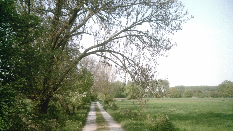 City limit between Donk, Viersen, Germany and Donk, Neuwerk, Mönchengladbach, Germany